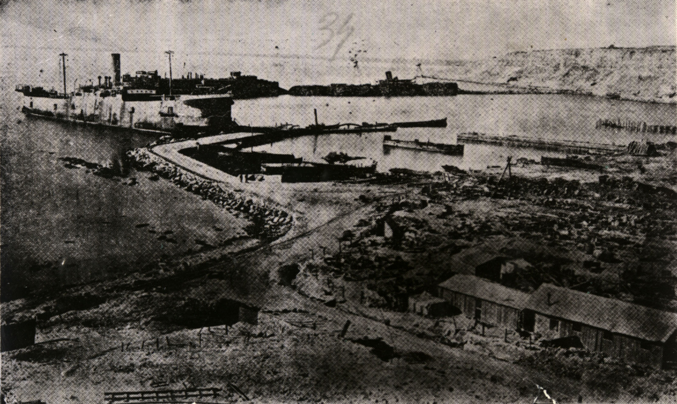 Landing pier at Sedd-ul-Bahir